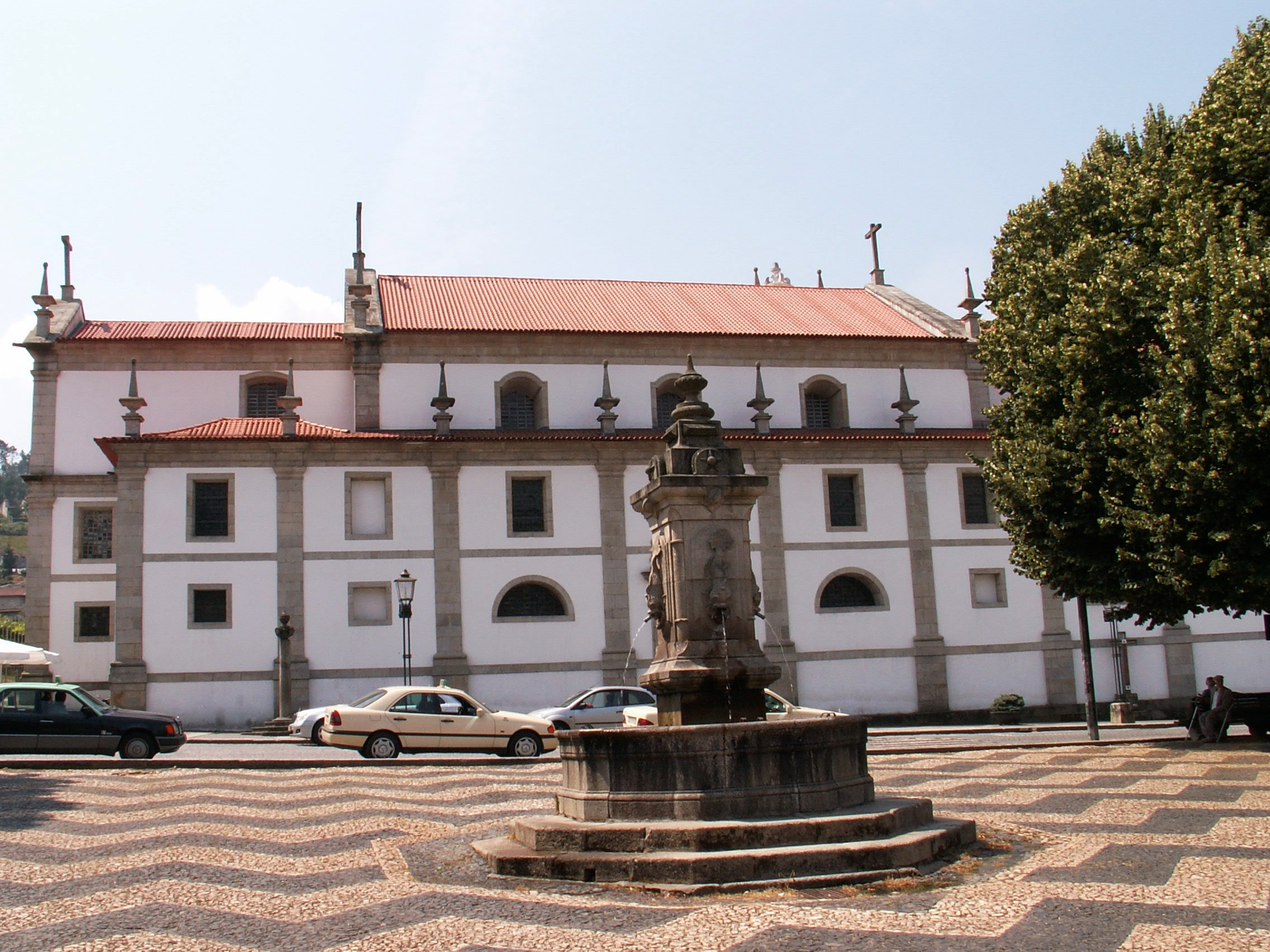 One side of the main square II